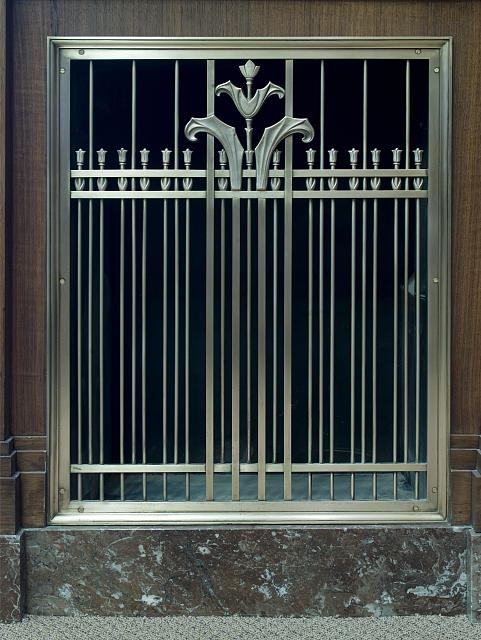 Detail of the metal grill found in the courtroom of the United States Courthouse in Davenport, Iowa.